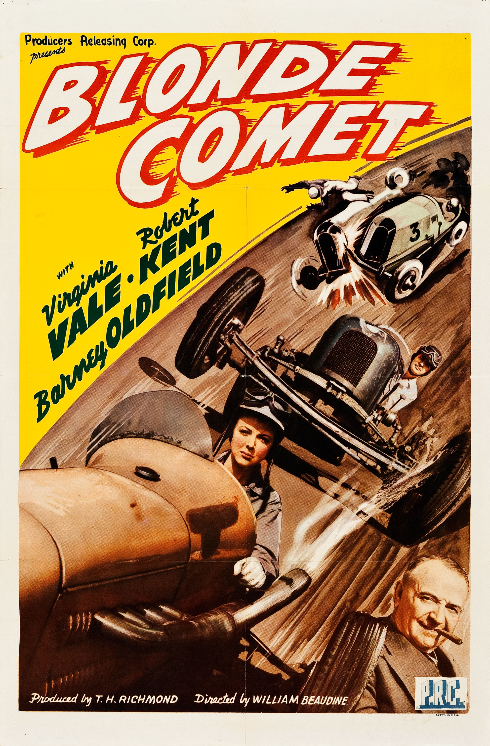 Poster for the 1941 film The Blonde Comet. The item has no copyright markings on it as can be seen in the links above. At bottom right is the PRC logo and Litho in USA/